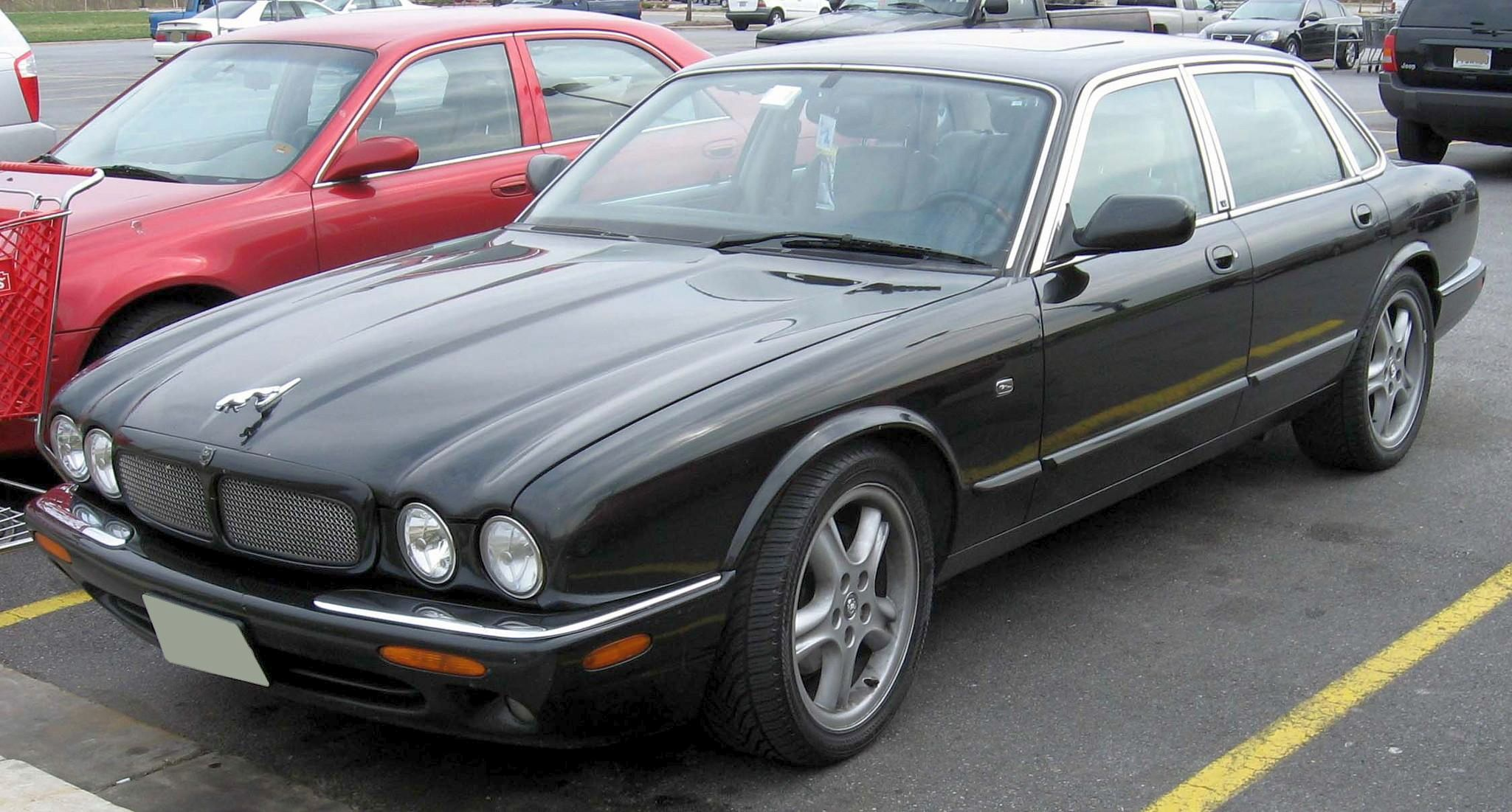 Jaguar XJR photographed in USA.